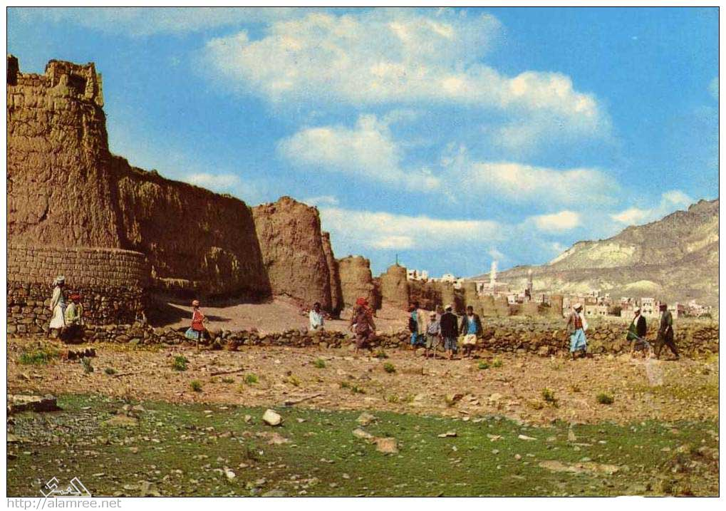 Sana'a in 1950s